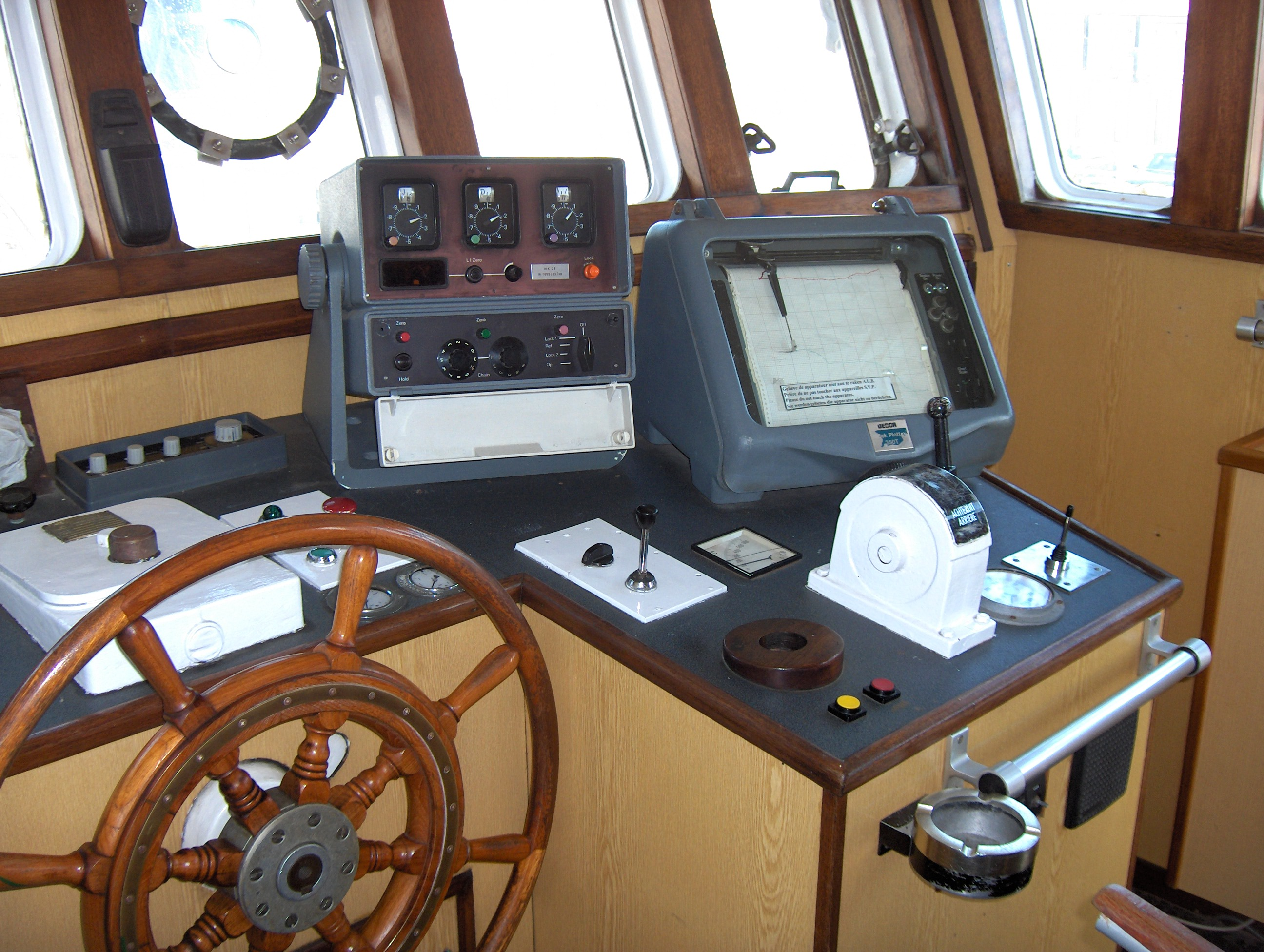 Depth recorder - the O129.Amandine is a former trawler fishing in Icelandic waters. It now has become a maritime museum in Oostende, Belgium